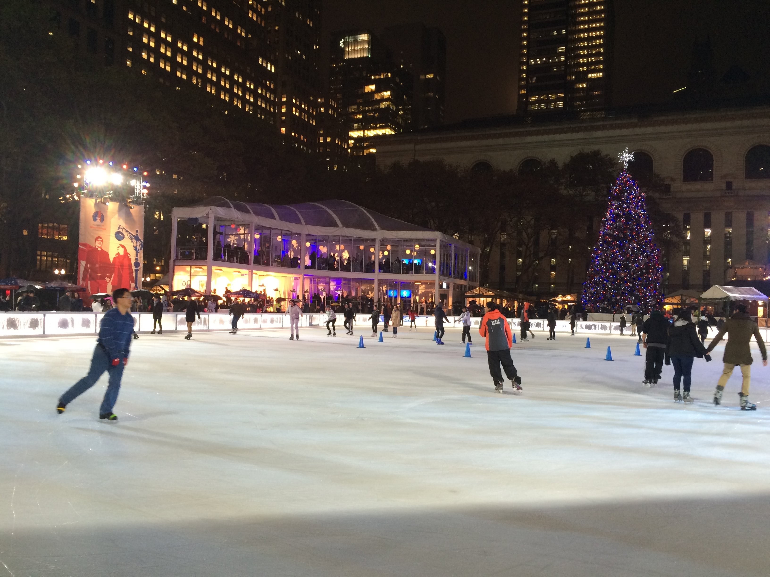 The Rink at Bank of America Winter Village, with the rear of the main building of the New York Public Library in the background